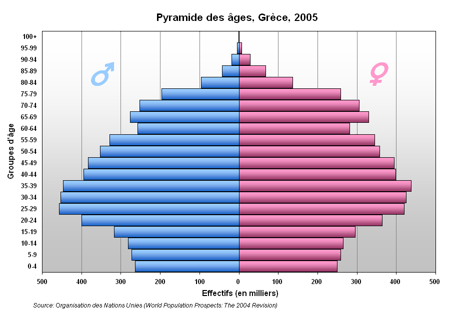 Greece Population pyramid, 2005